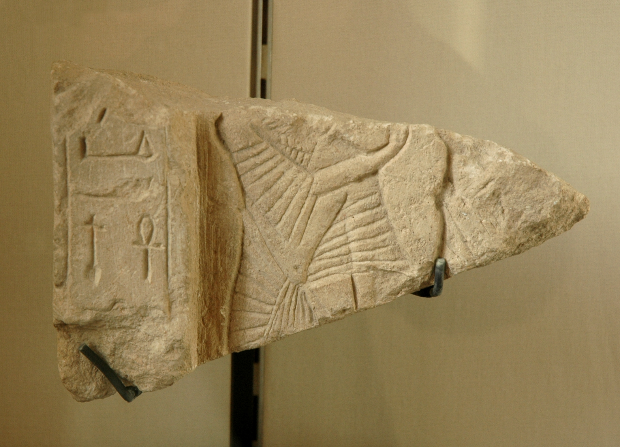 Fragment of an Egyptian stele, from the New Kingdom Period (13th-12th century). Limestone, found at the acropolis of Ras Shamra (ancient Ugarit).